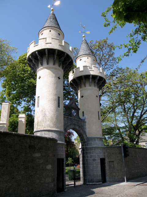 The Powis gate Old Aberdeen The Powis gates were erected in 1834 by Hugh Fraser Leslie of Powis – the lively owner of a straggling estate lying to the West of Old Aberdeen. The minaret towers of the structure may suggest a Turkish influence. Above the arch is the coat of arms of the Fraser Leslie family. Another shield at the back carries busts of three black slaves, commemorating the family’s link with the grant of freedom to the slaves on their Jamaica plantations. The entrance now leads to the Crombie and Johnston Halls of Residence of The University of Aberdeen.